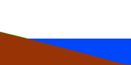 Reclamation works - 01